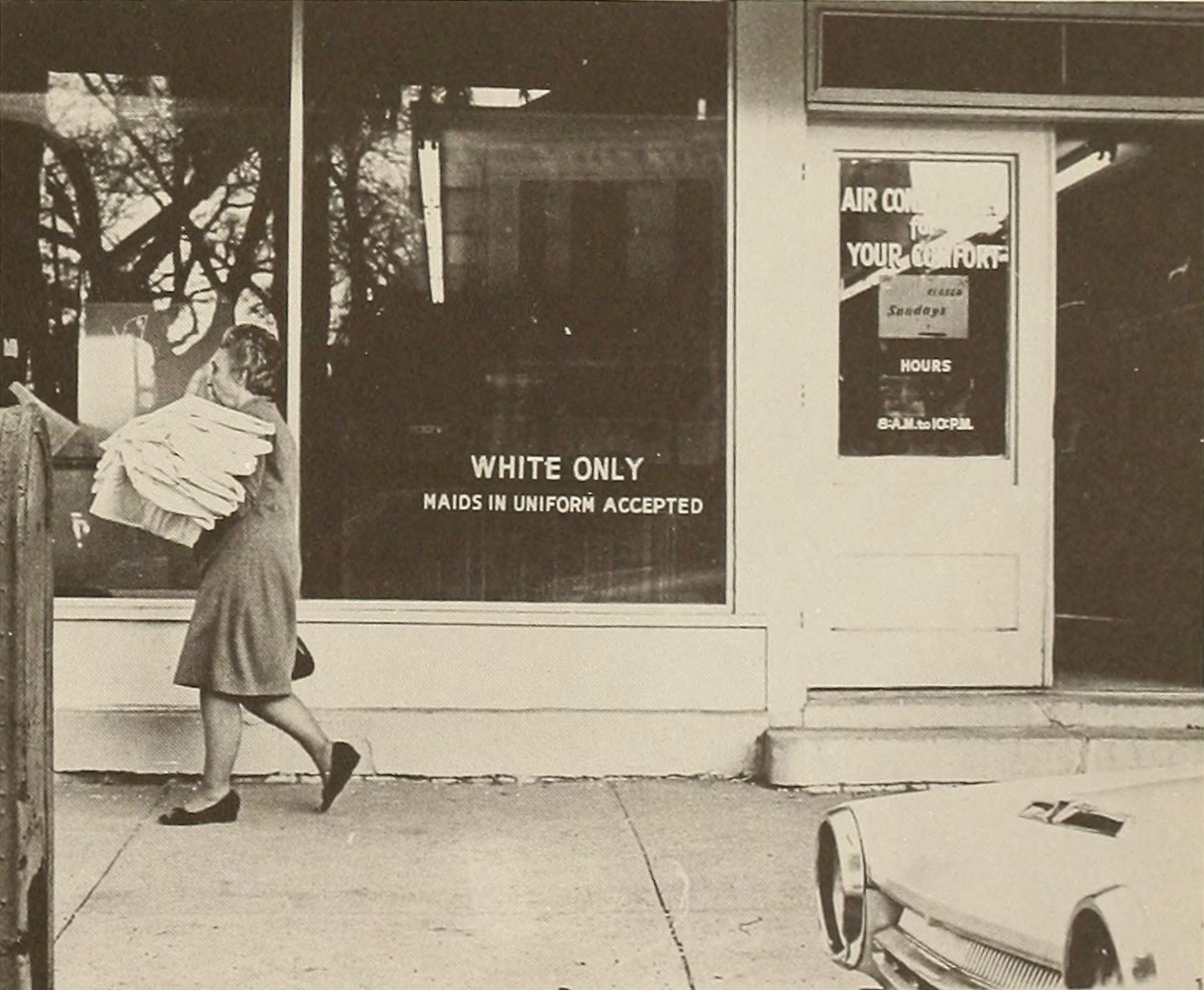 New Orleans in the late 1960s. Shop has lettering in front window: "WHITE ONLY Maids in Uniform Accepted" Such segregation was outlawed a few years earlier, but some signs remained. Uncropped page: File:New_Orleans_-_Tulane_Jambalaya_1969_-_Confederate_Hall.jpg